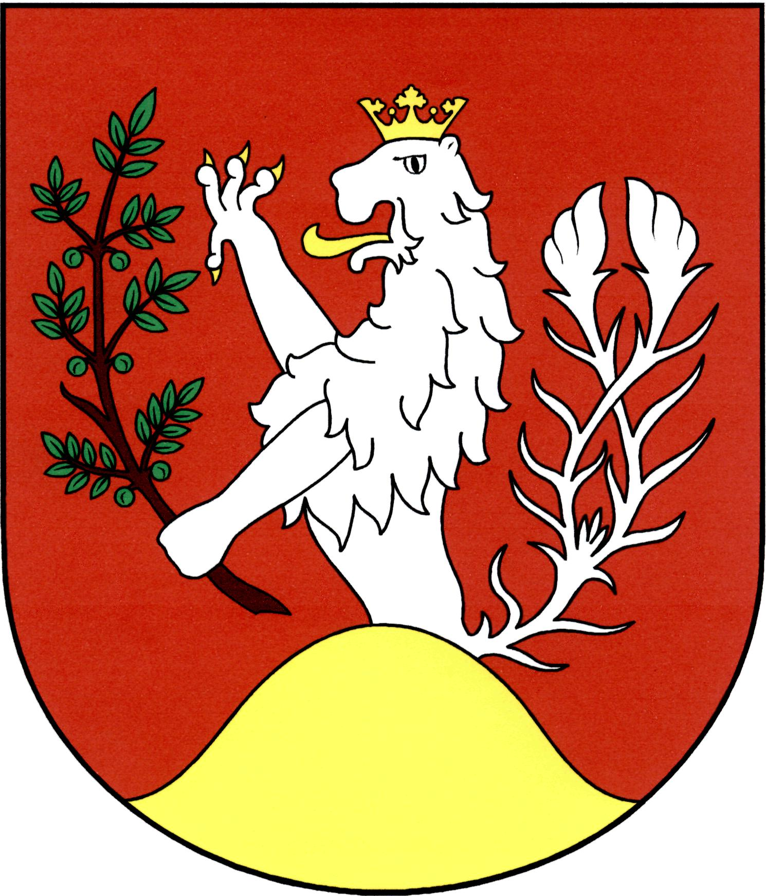 Coat of amrs of Brázdim , District Praha-východ, Czech Republic